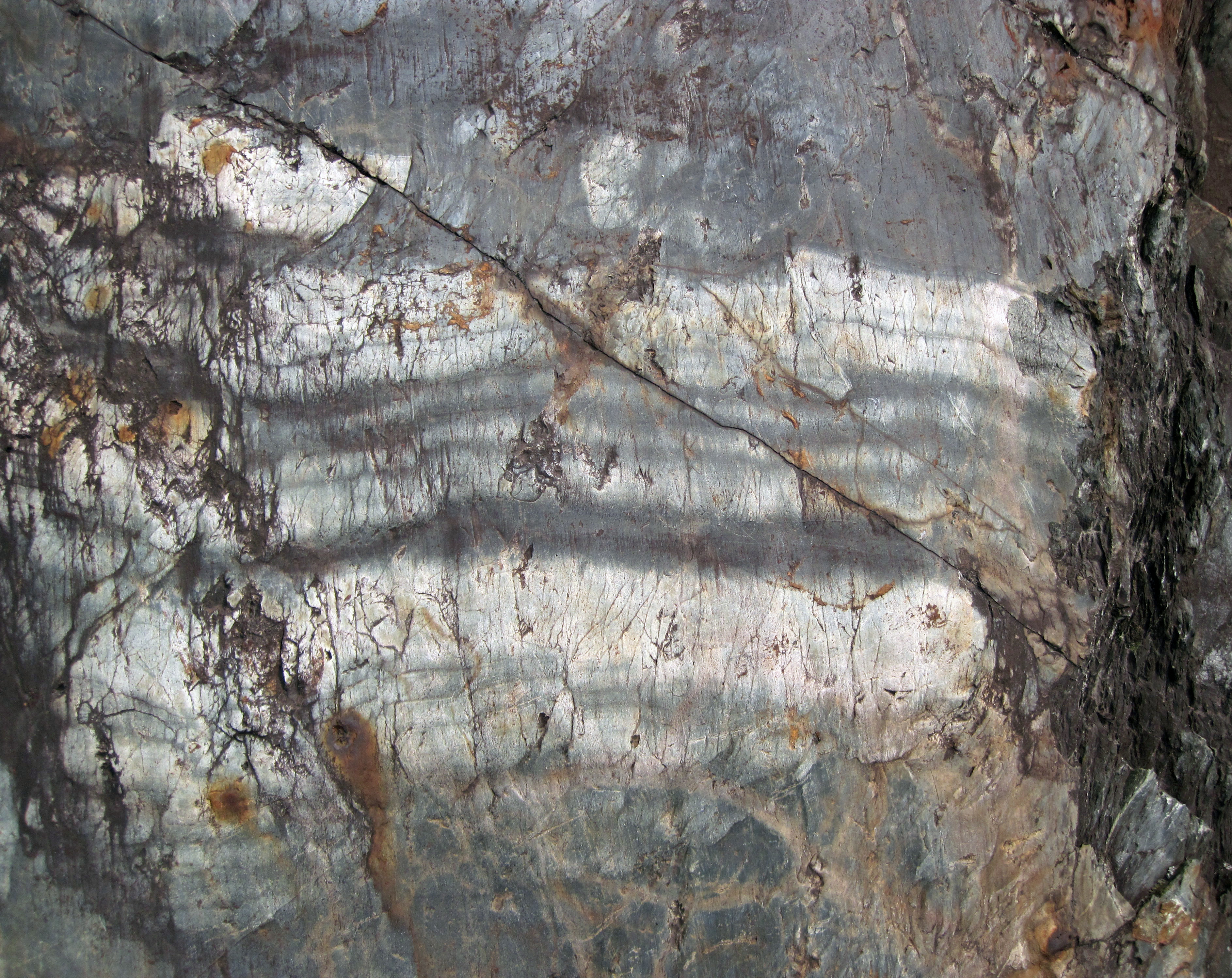 Interbedded graywacke-siltstone-slate in the Precambrian of Minnesota, USA. This is an outcrop of slightly metamorphosed shale-siltstone-graywacke outcrop that was smoothed and striated by glaciers during the Pleistocene Ice Age. Geologic unit & age: Mud Lake sequence, Neoarchean. Locality: roadcut along the eastern side of Bourgin Road roadcut, just southeast of the Rt. 53-Rt. 135 intersection, southeast of the town of Virginia, central St. Louis County, northeastern Minnesota, USA.